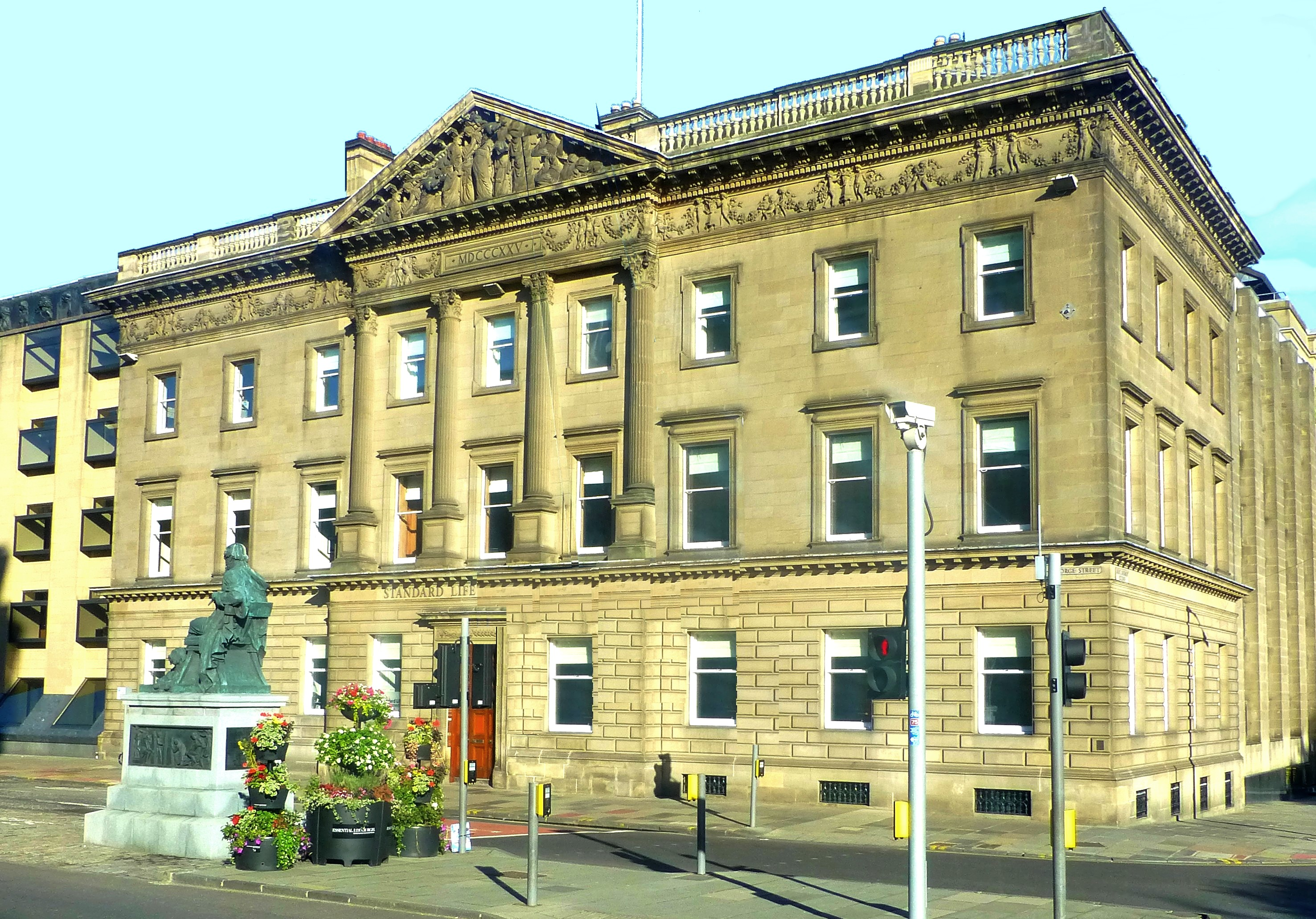 Edinburgh - Standard Life Investments